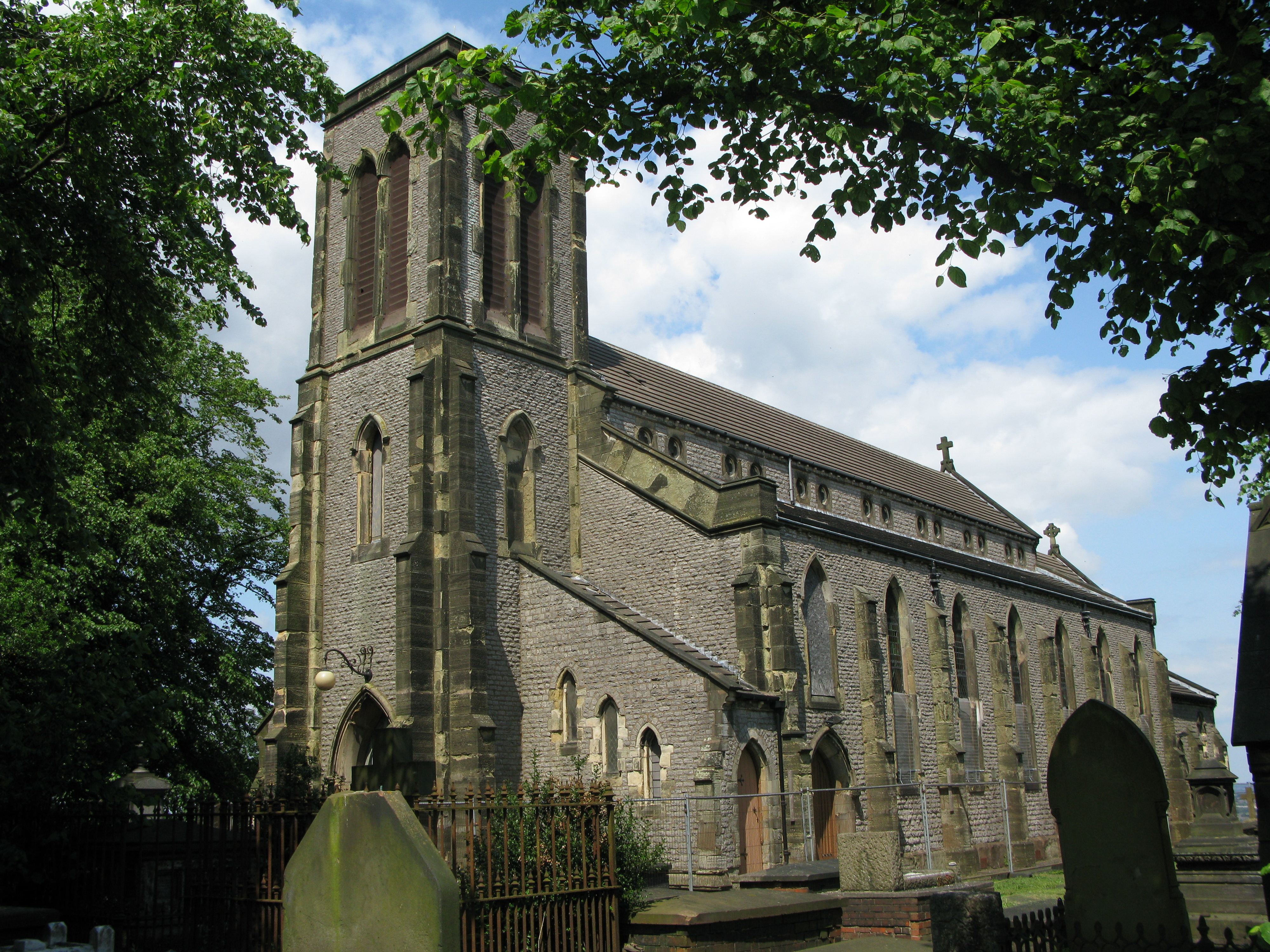 Parish church of St John the Evangelist, Dudley, West Midlands